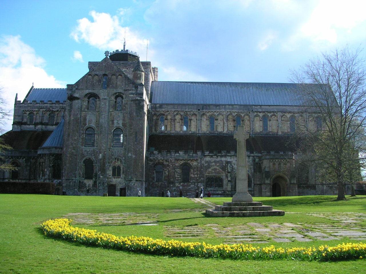 Romsey Abbey, Hampshire, England.